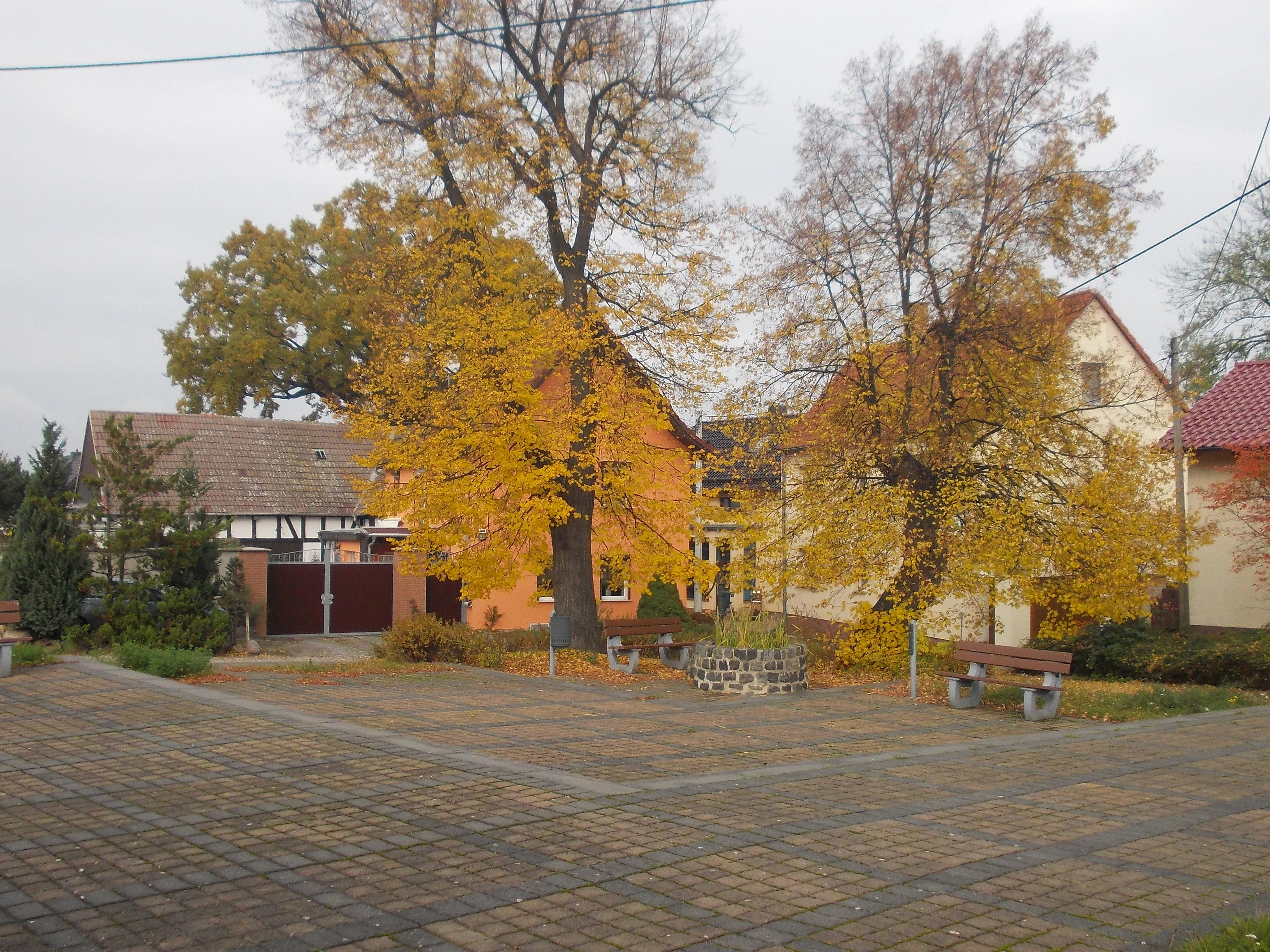 An den Brunnen in Borau (Weissenfels, district: Burgenlandkreis, Saxony-Anhalt)